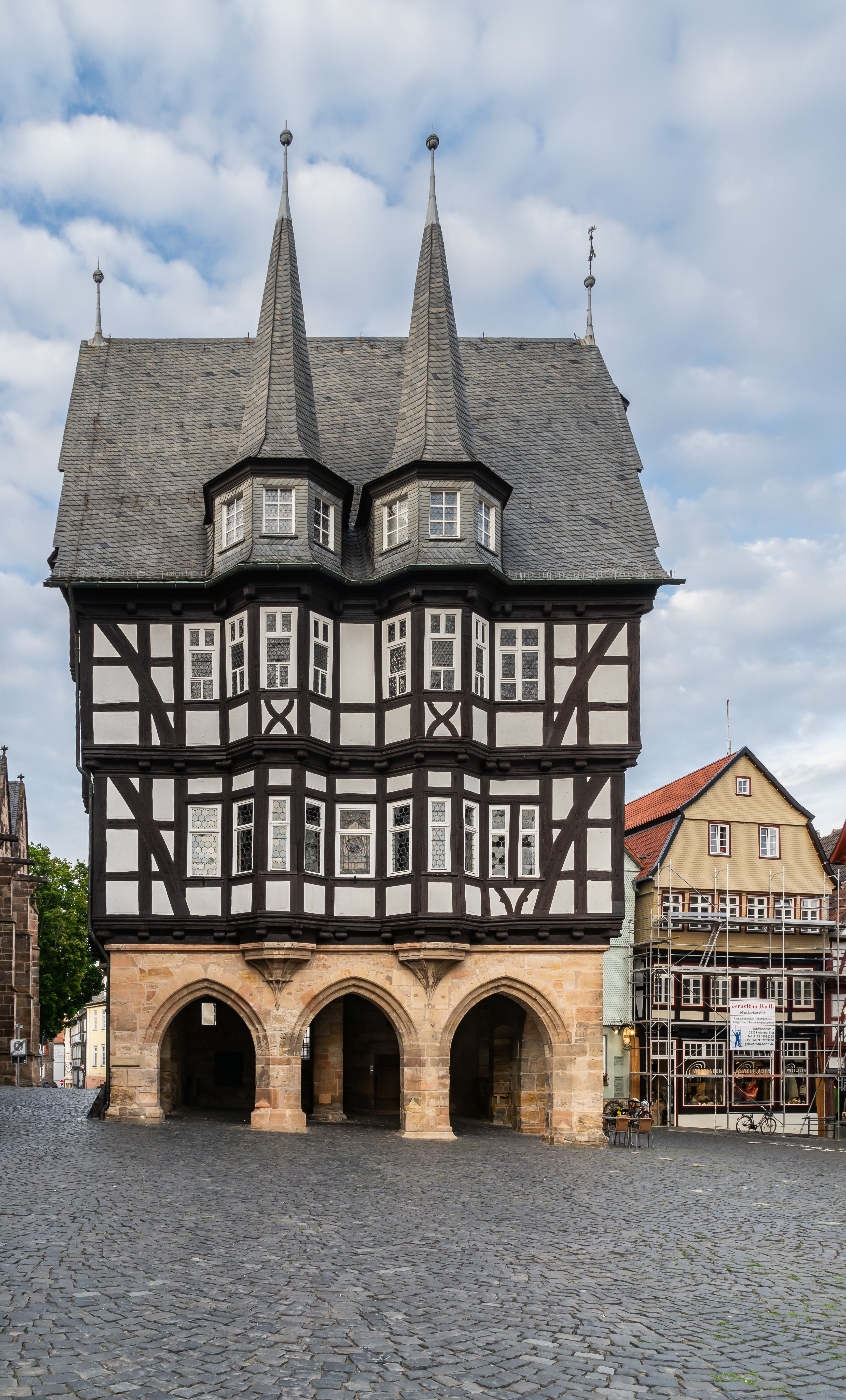 Town hall of Alsfeld, Hesse, Germany